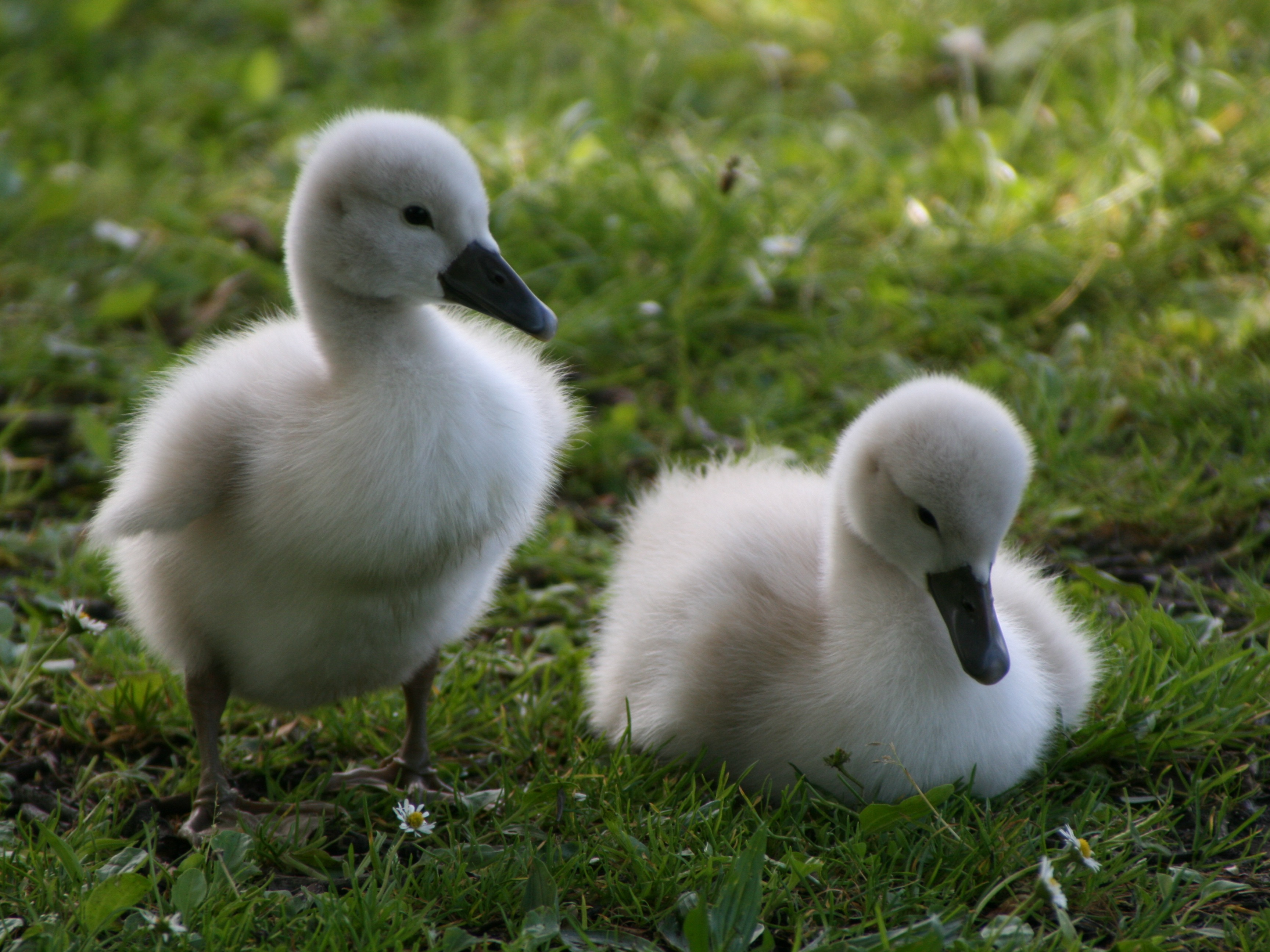 This picture shows the two cygnets of a mute swan (Cygnus olor) which, guarded by their close-by parents, explore the environment and eat grass. The young swans still feature very short wings and fluffy feathering which this picture exposes very clearly.